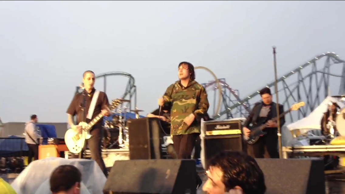 Leathermouth at skate and surf 2013